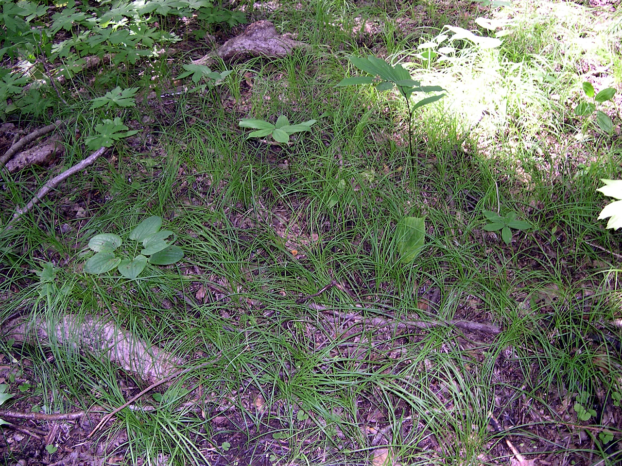 Pennsylvania Sedge or Common Oak Sedge (Carex pensylvanica) in East Woods of the Morton Arboretum